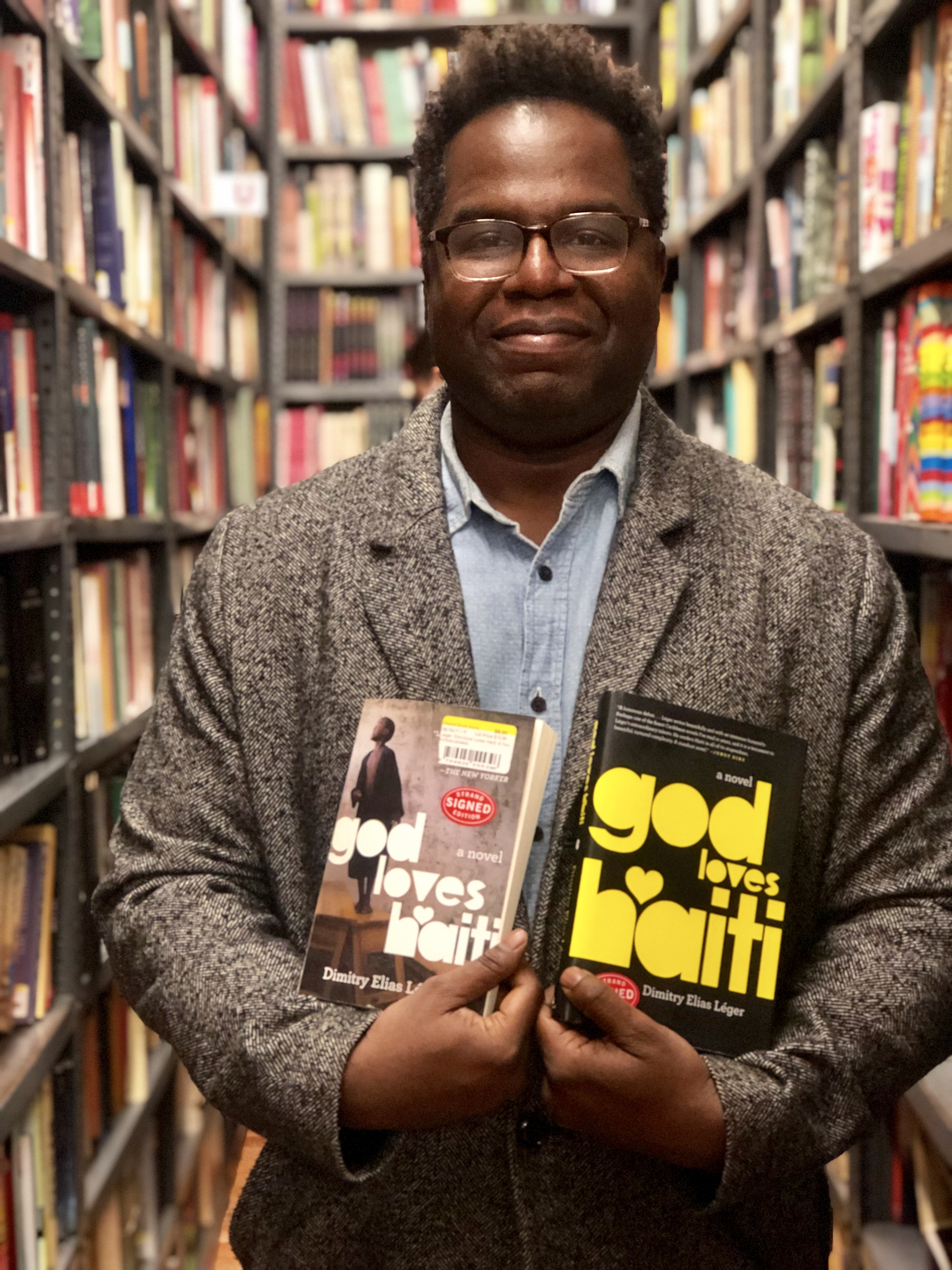 The author holding his novel in hardcover and paperback in New York City in 2019.